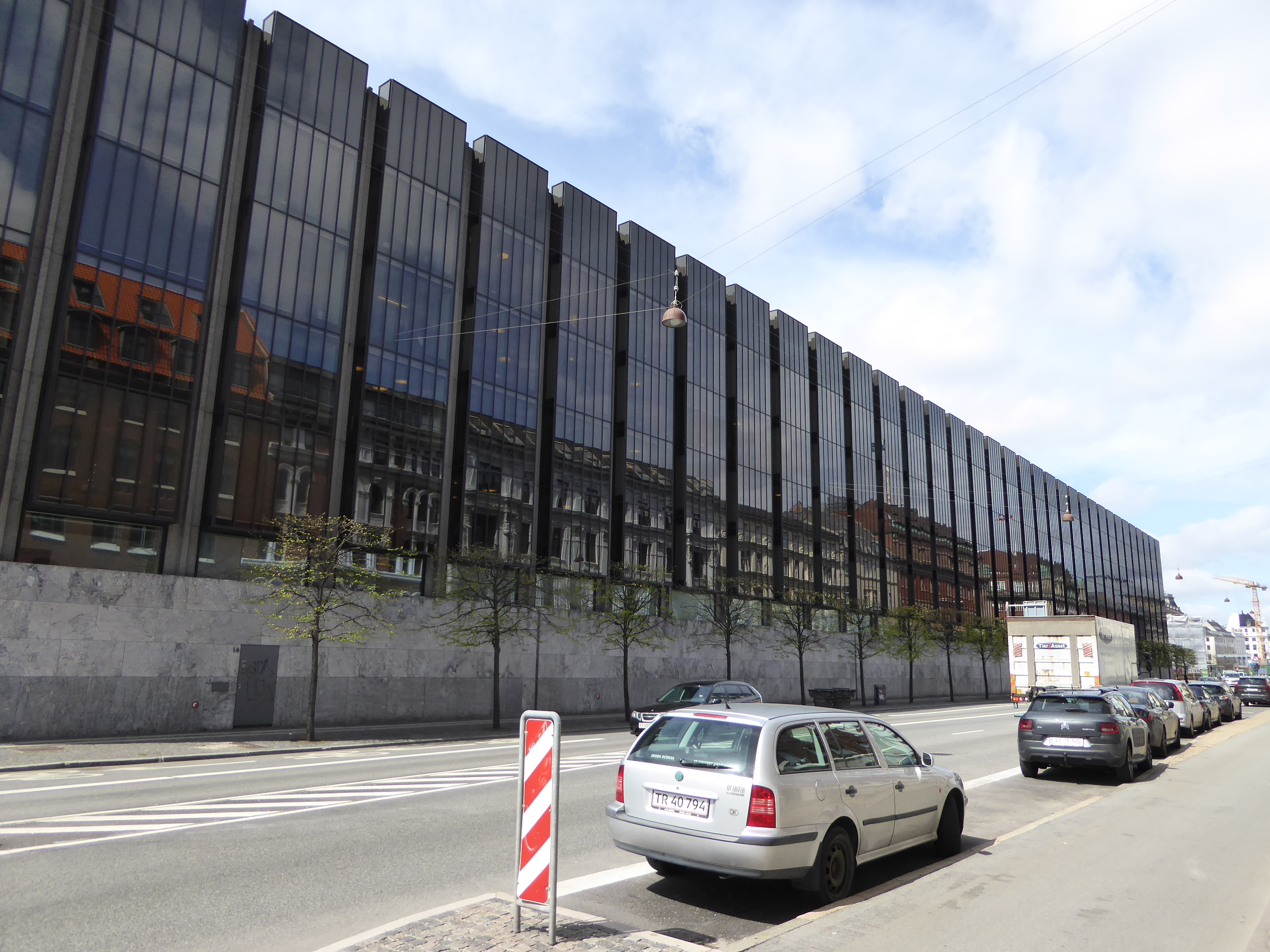 The Danish National Bank at Niels Juels Gade in Indre By in Copenhagen. The reflections of the buildings on the other side of the street can be seen.